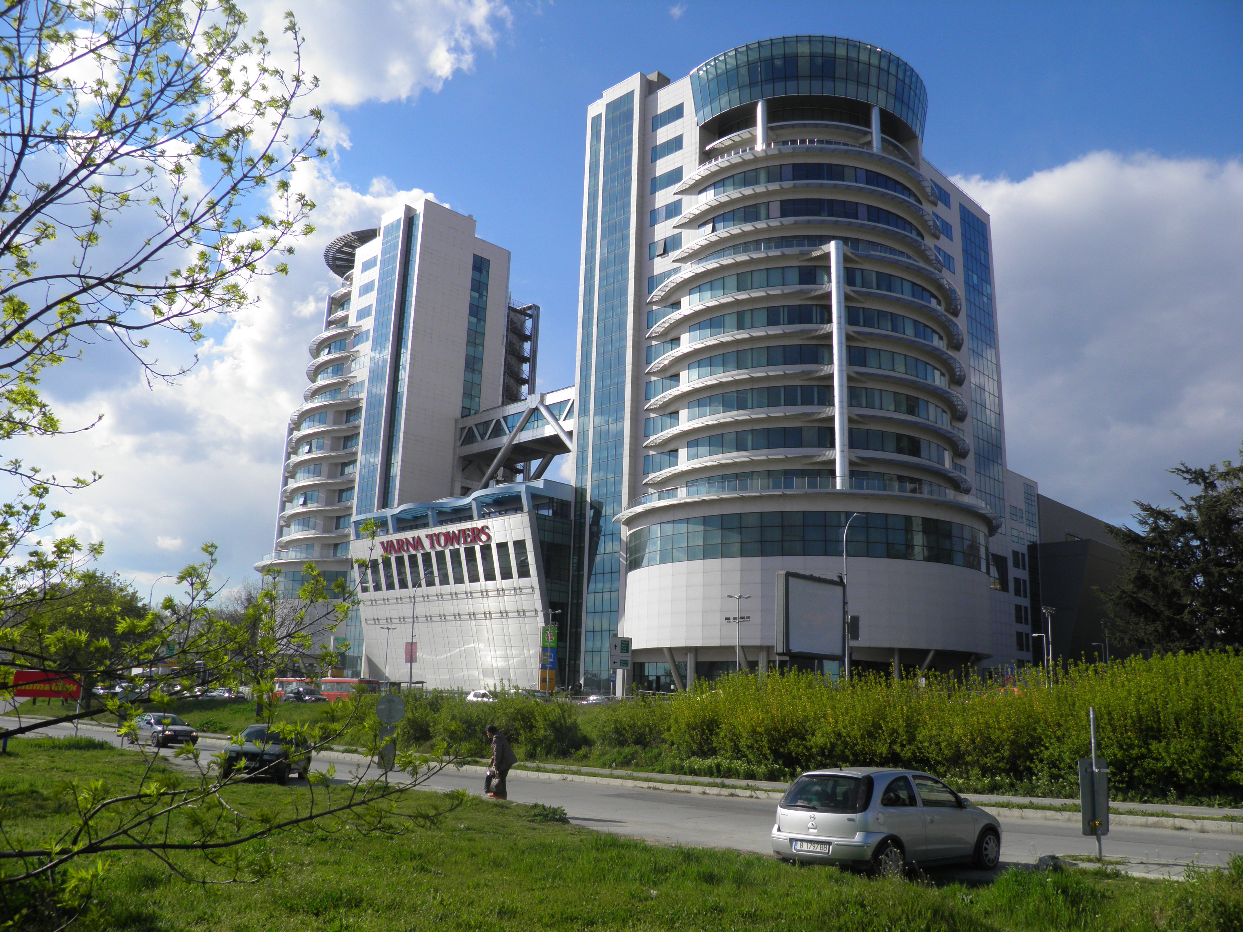 Varna Towers,Bulgaria